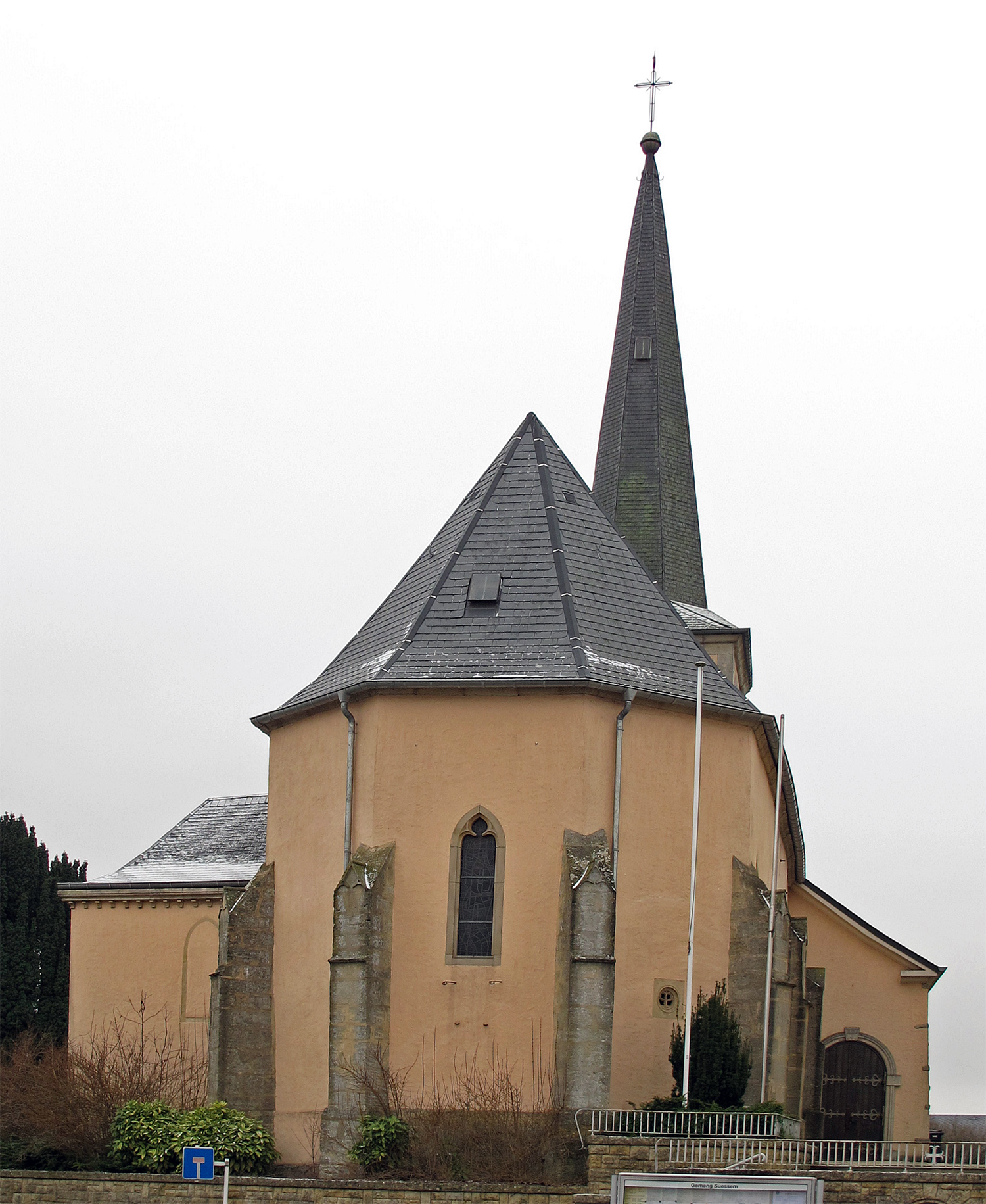 Church of Sanem, Luxembourg, rear side